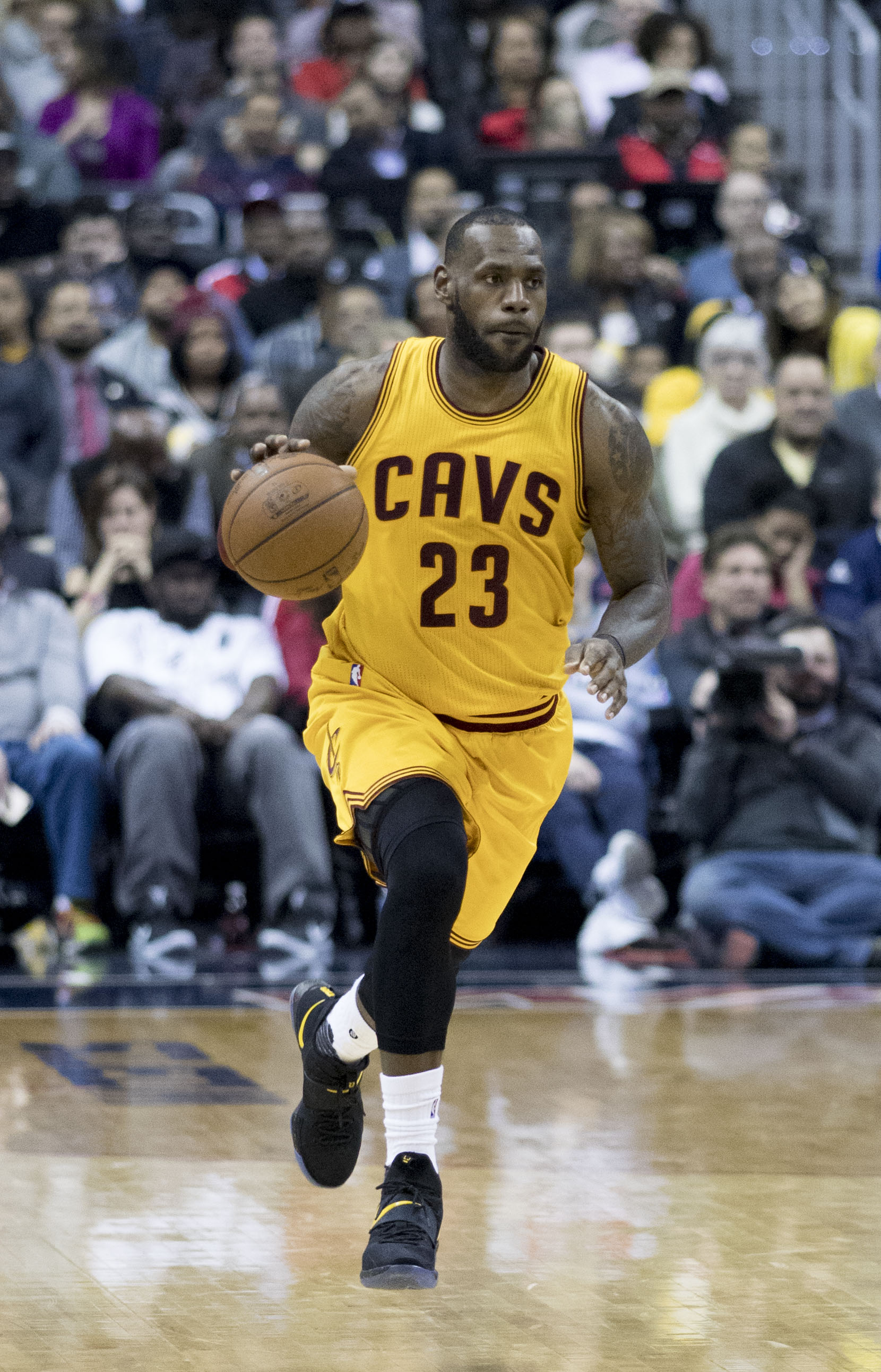 LeBron James of the Cleveland Cavaliers in action against the Washington Wizards during a game on February 6, 2017 at Verizon Center in Washington, DC.